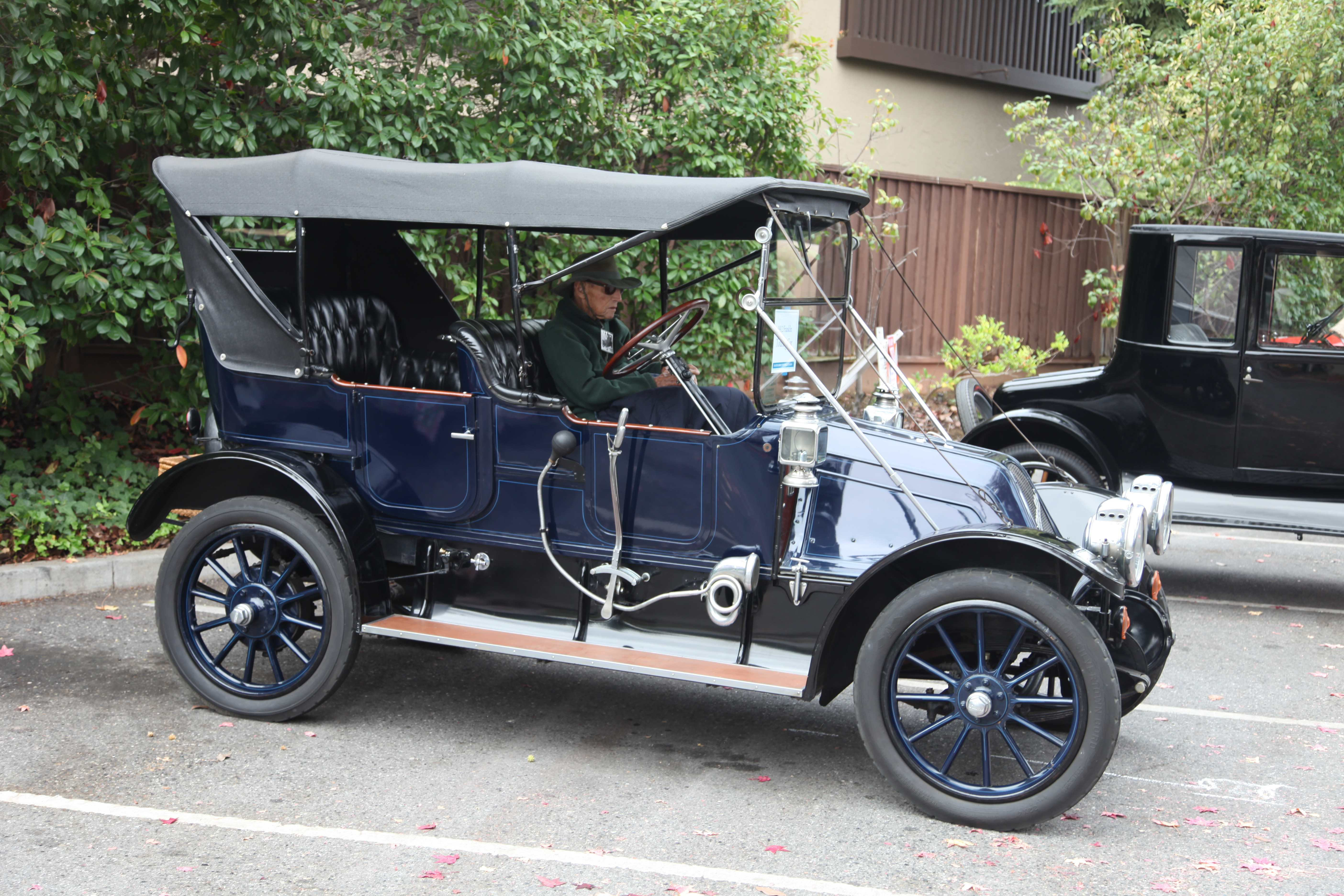 1912 Franklin touring car